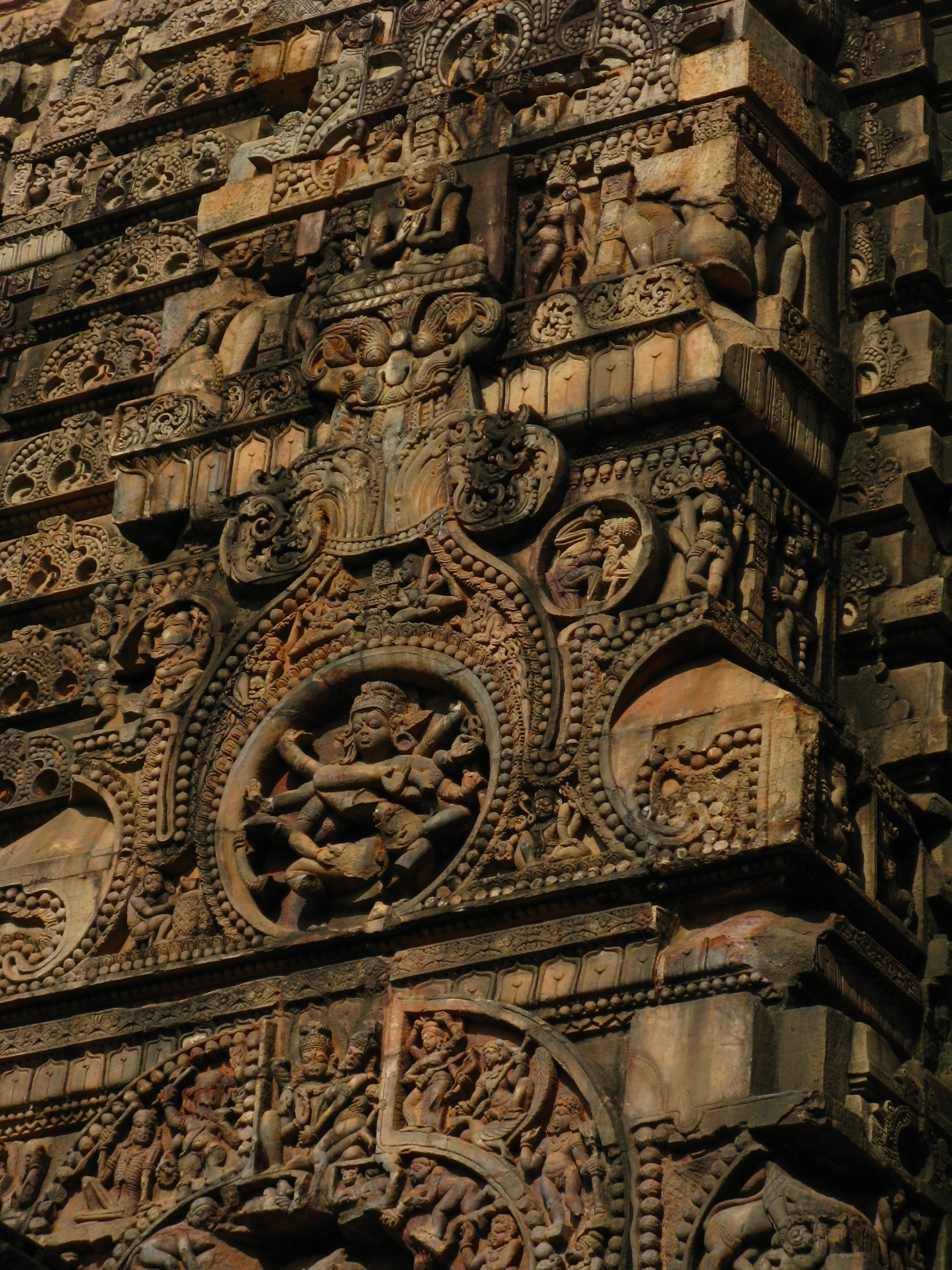 Bhuvaneshwar, Orissa